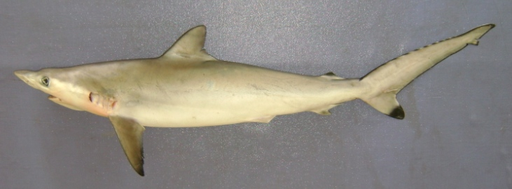 Spot-tail shark (Carcharhinus sorrah) at Karachi harbor